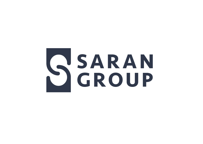 The logo of Turkish company Saran Holding